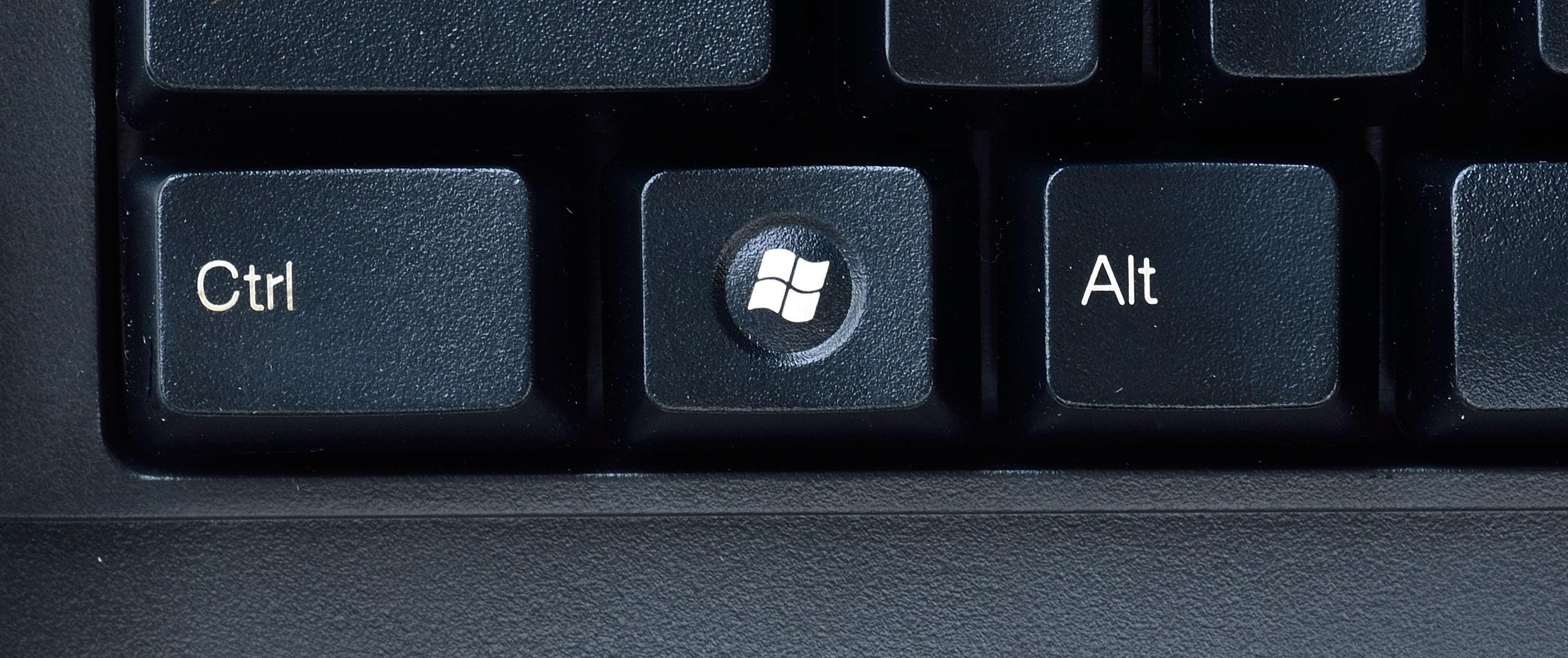 The "Ctrl", "Windows" and "Alt" keys.